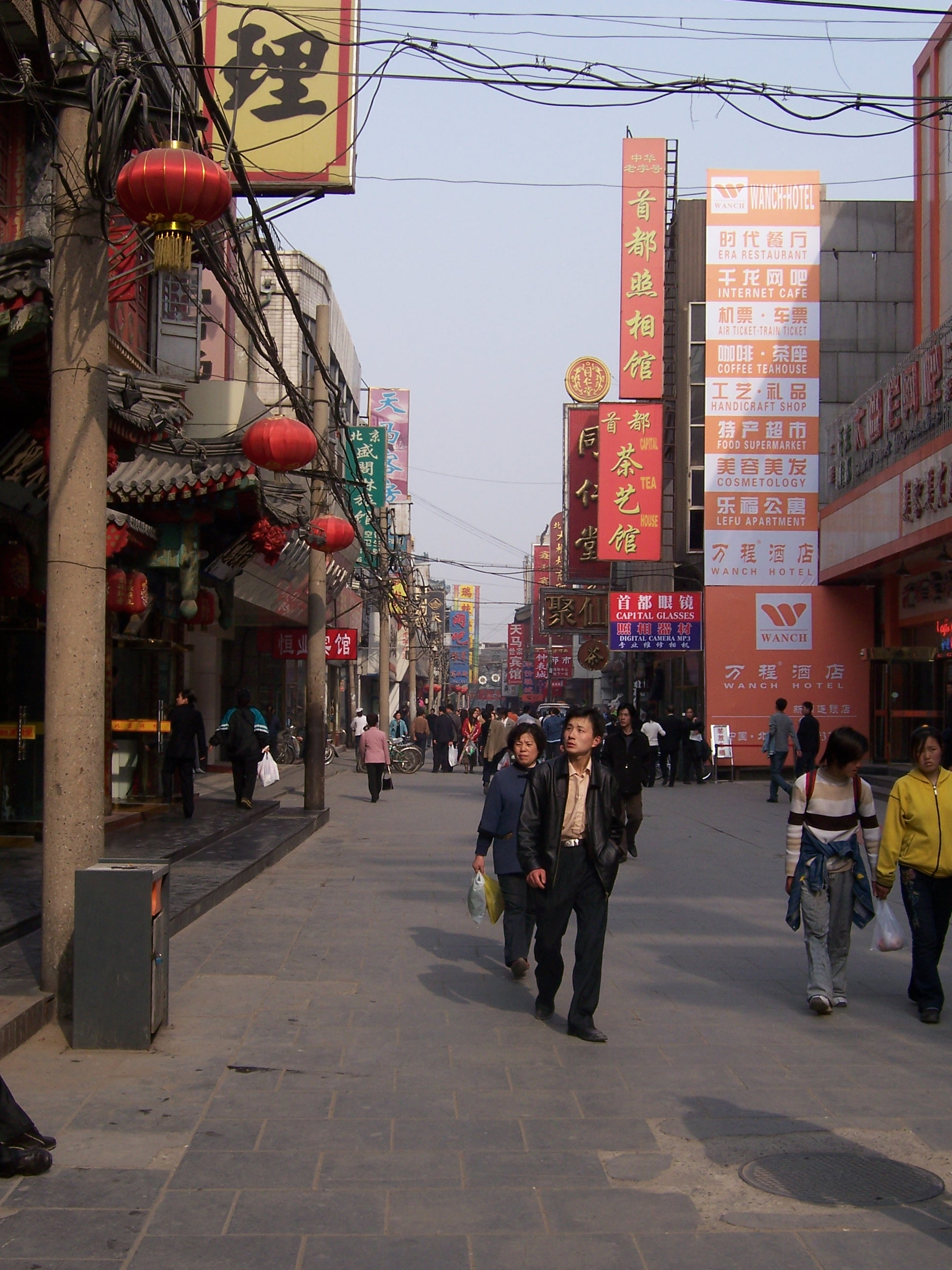 Exploring the Hutongs of Beijing, meandering on foot, was my time in the city, far above the palaces and heritage sites (which are certainly amazing too). Life of a city or any place always happens at street level and how people move, interact and carry on thieir lives, how they shop and where they eat, tells you far more about a people than any museums, tourist sites or sanitized tours. Hutongs like one in the old city centre are disappearing, perhaps already gone as Beijing remakes itsself and redevelops the area. When I was there in mid-2006 it was already under heavy change in the build-up to their olympics and Hutongs already endangered. I wonder if this one is still there, perhaps kept as a tourist or cultural attraction. I am not one to hold onto the past at the expense of the future - I like shiny, tall urban cities - but the balance of these wonderful twisting, vibrant streets is something I hope remains. 大栅栏西街